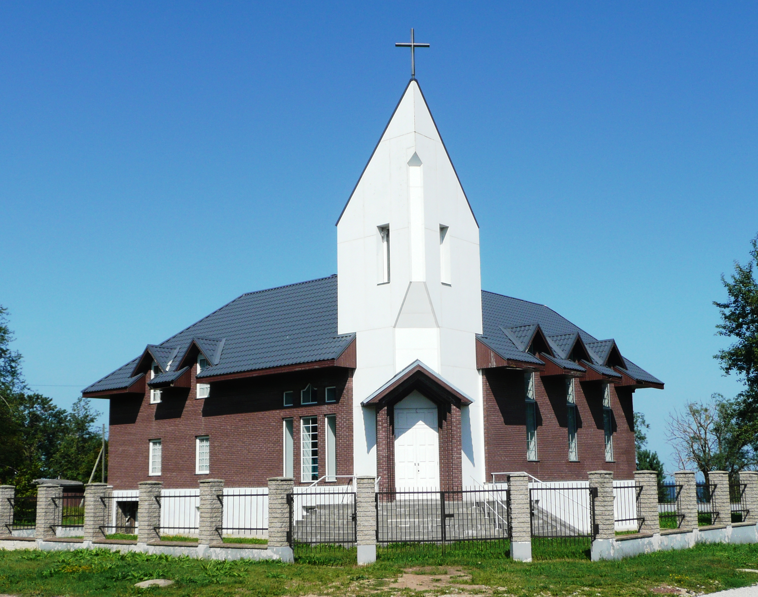 Sts. George and Adalbert Church in Sillamäe (August 2013)